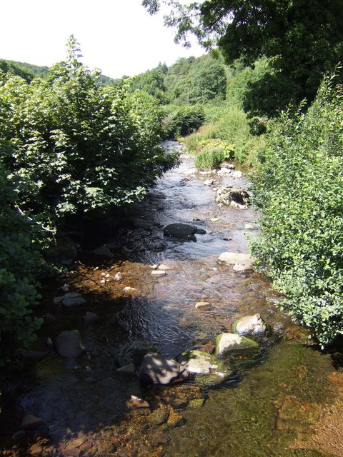 Afon Gwydderig The river is flowing westwards towards Llandovery.